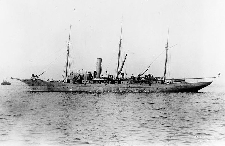 Photo #: NH 101778 USS Harvard (SP-209) Photographed during World War I by Edwin Levick, New York. Built in 1894 by Bath Iron Works as Eleanor and later renamed Wacouta, this steam yacht was acquired by the Navy on 28 April 1917 and commissioned on 10 May 1917. She was returned to her owner on 26 July 1919.